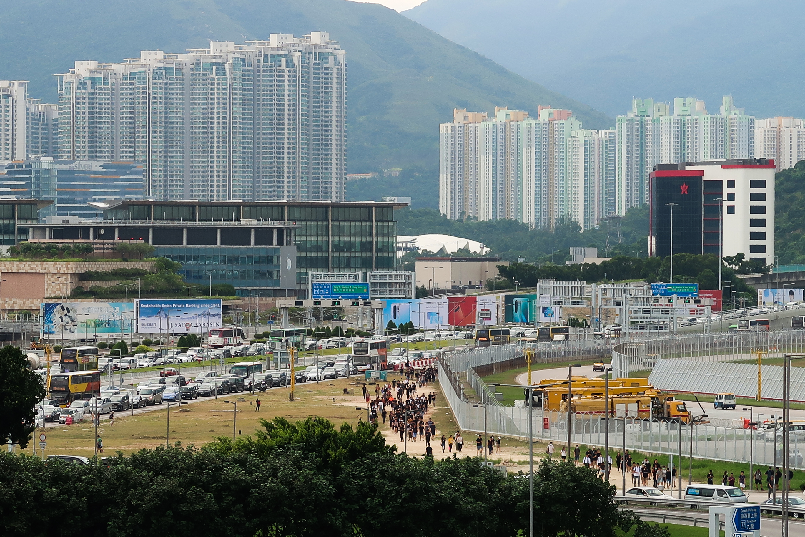 People walk to Hong Kong International Airport